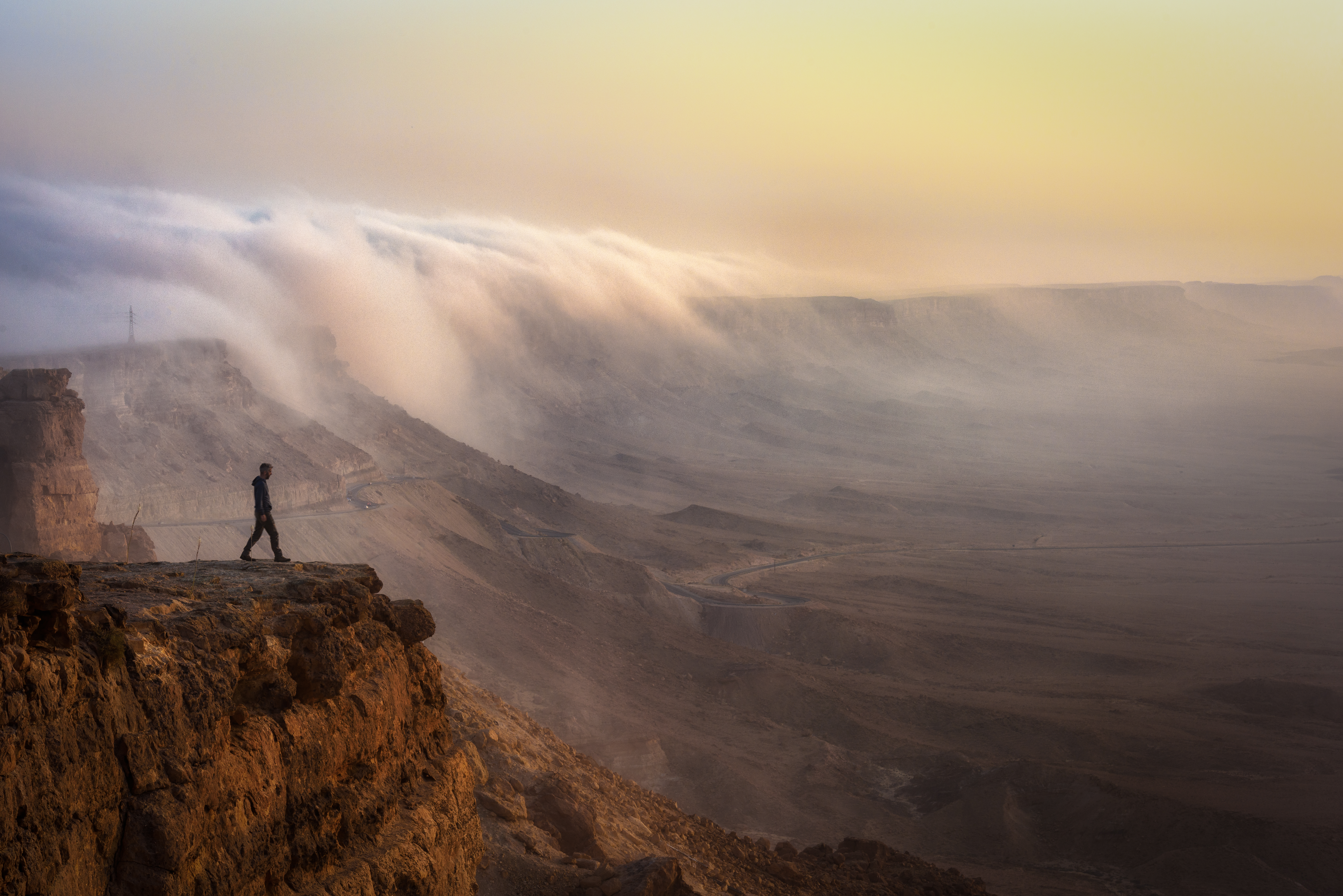 Advection fog occurs when moist air passes over a cool surface by advection (wind) and is cooled. Here in the photo fog over Ramon Crater.